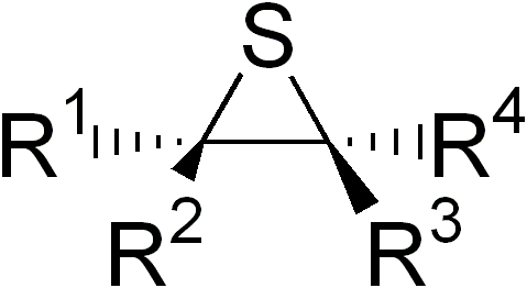 general chemical structure of an episulfide